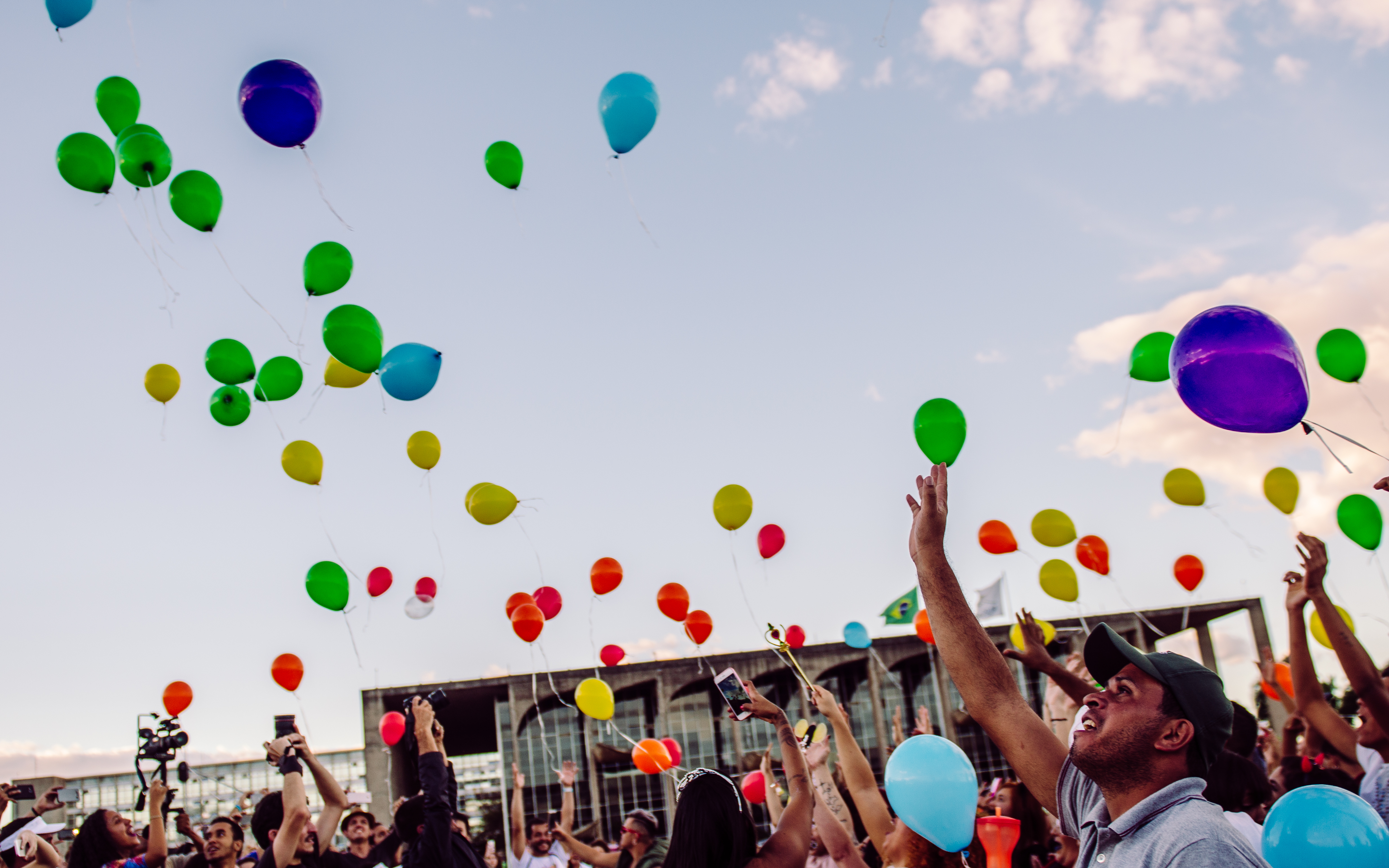 Fotos Mamana Foto Coletivo